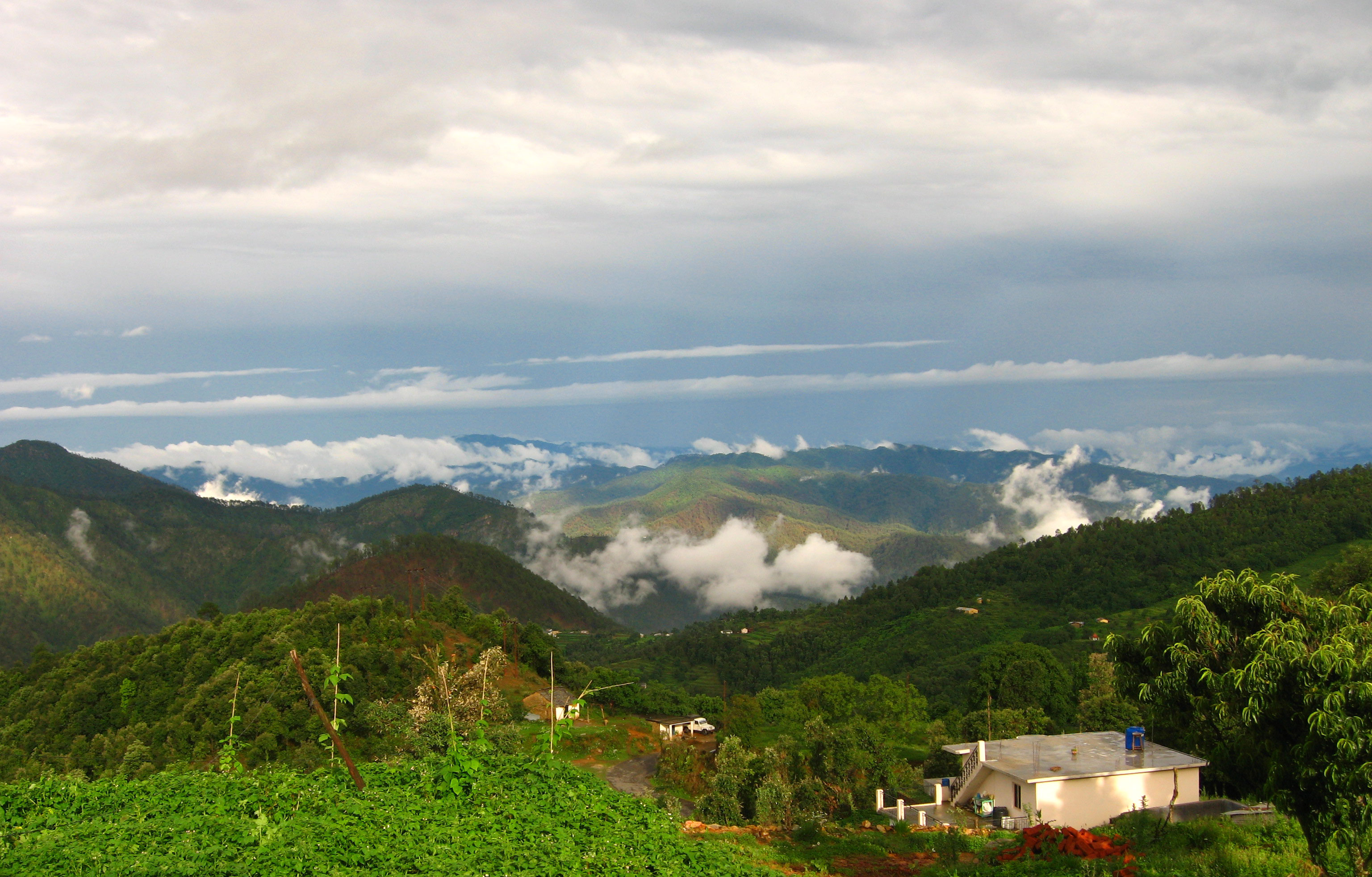 Dunagiri,Kumaon,India. Dunagiri-A kind of place where dreams come true, Dunagiri.